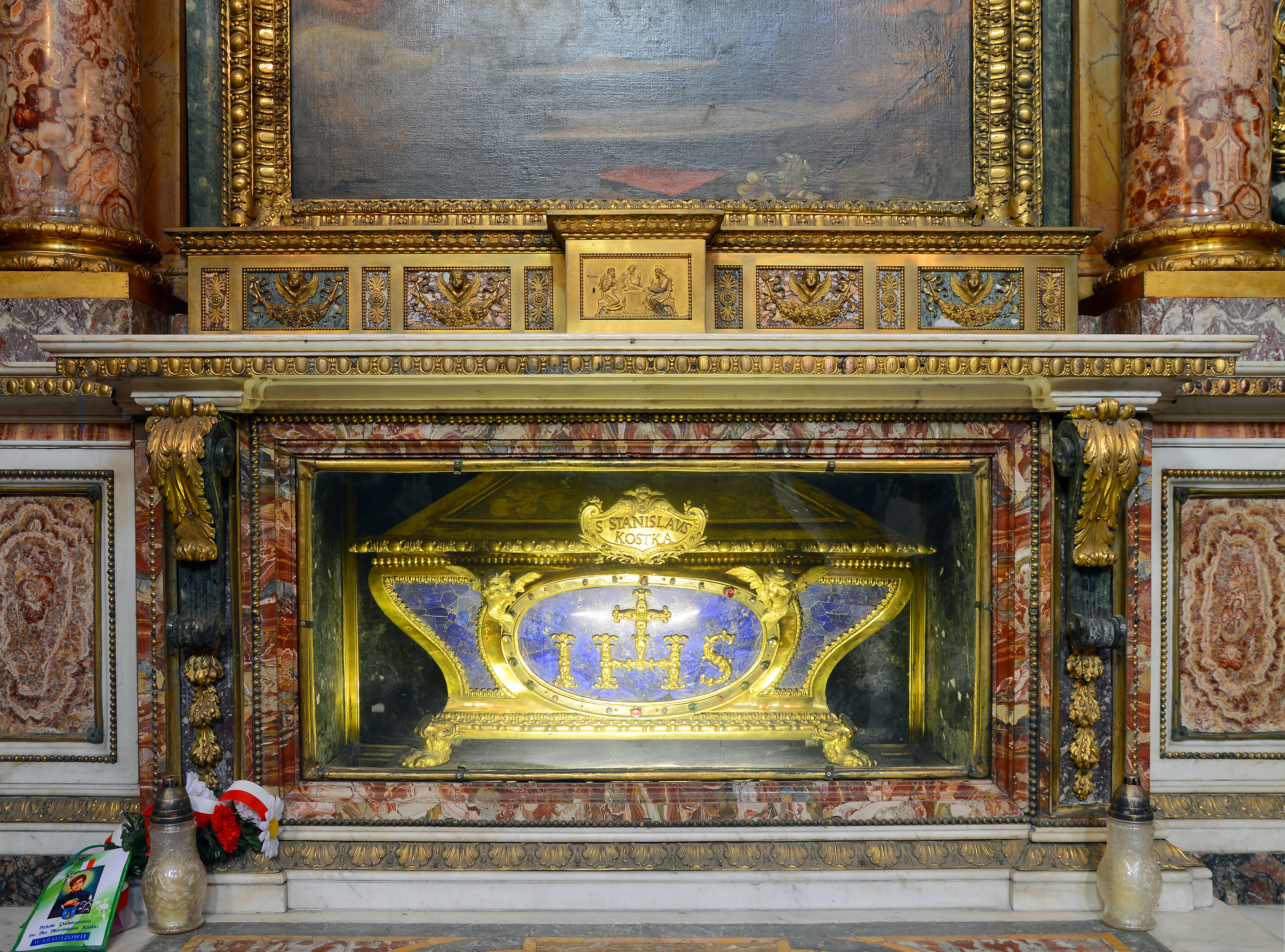 Tomb of Stanislaus Kostka in Sant'Andrea al quirinale